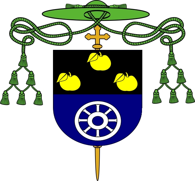 Coat of arms of Šimon Bárta, Bishop of Ceské Budĕjovice {Budweis} 1920-1940